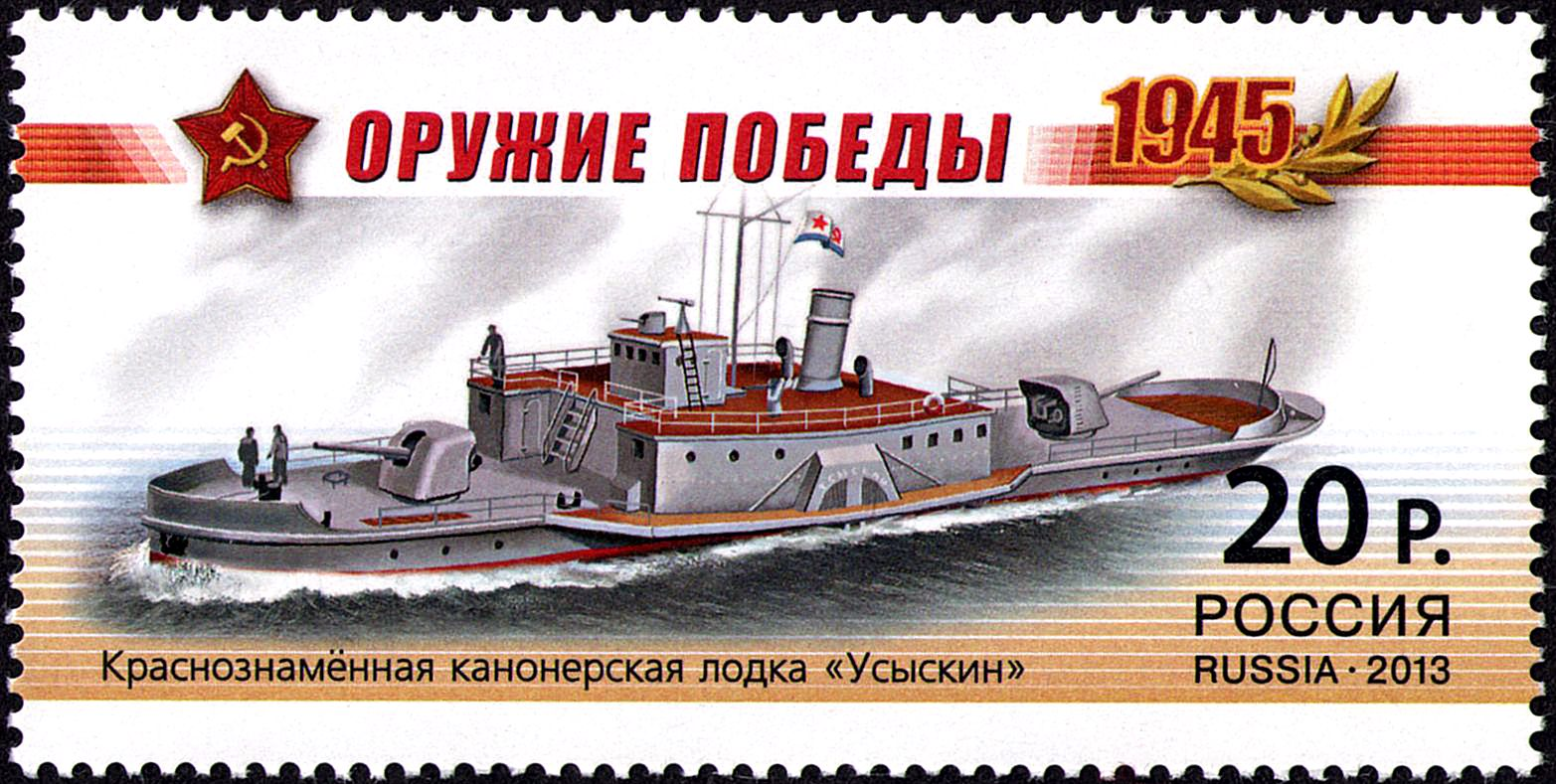 The weapon of the Victory (the ongoing stamp series). Issue V: Warships. The Soviet gunboat Usyskin. Launched 1934[1]. Volga Flotilla. In 1943 the gunboat Usyskin was awarded the Order of the Red Banner. The stamp of Russia, 20.00 Rubles, 8 May 2013, PTC Marka Catalogue No 1697, Michel No 1930. Coated paper. Offset printing, multicoloured. Perforation: comb 13½×13½. Size of the stamp: 65×32.5 mm. Print run: 465,000.